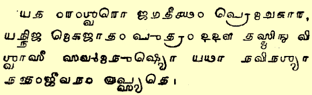 Scanned in from a Sanskrit Bible published in 1863, and now out of copyright.